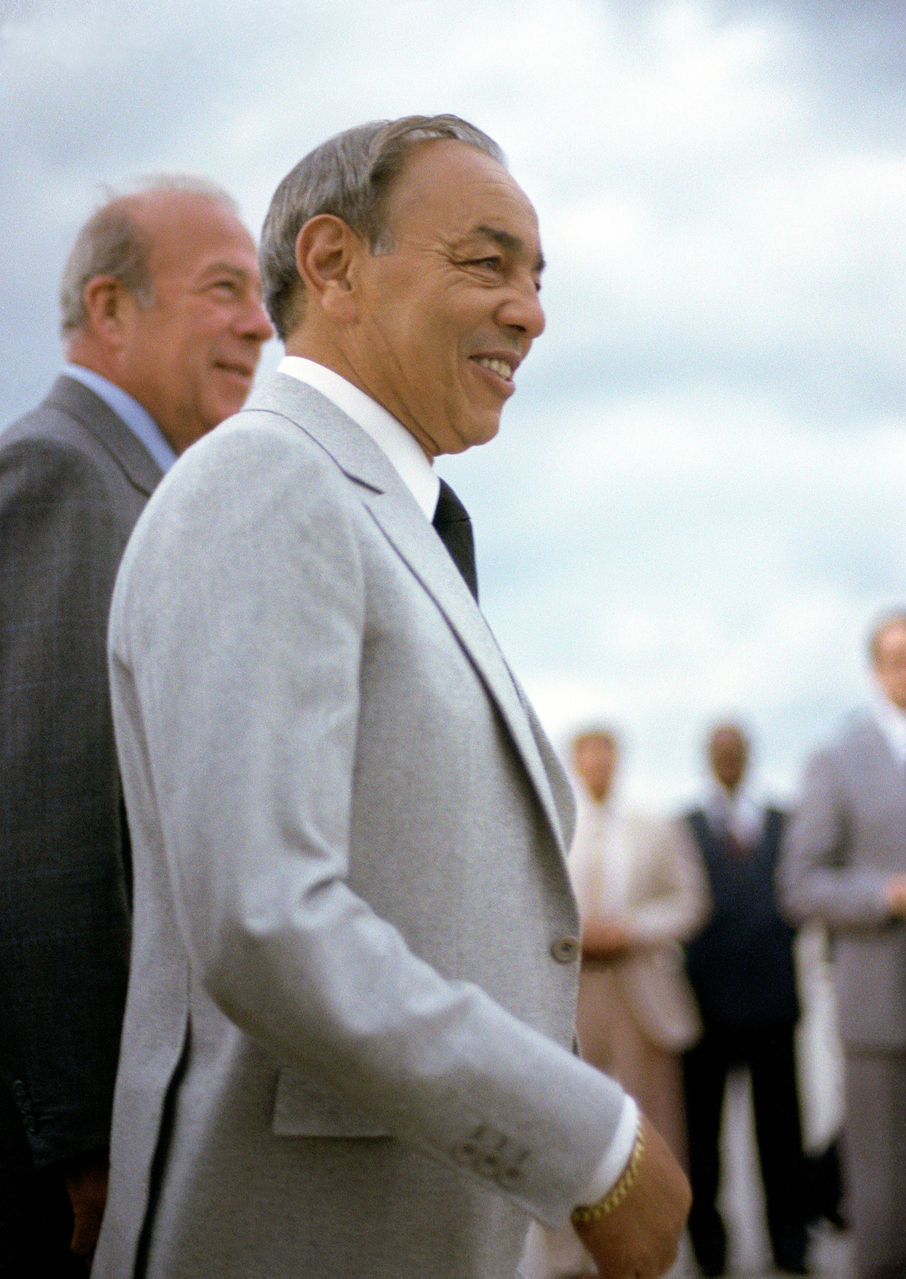 King Hassan of MOROCCO arrives for a visit to Washington D.C. Location: ANDREWS AIR FORCE BASE, MARYLAND (MD) UNITED STATES OF AMERICA (USA)